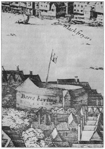 Hope Theatre and bear baiting arena, from Hollar's View of London (1647)